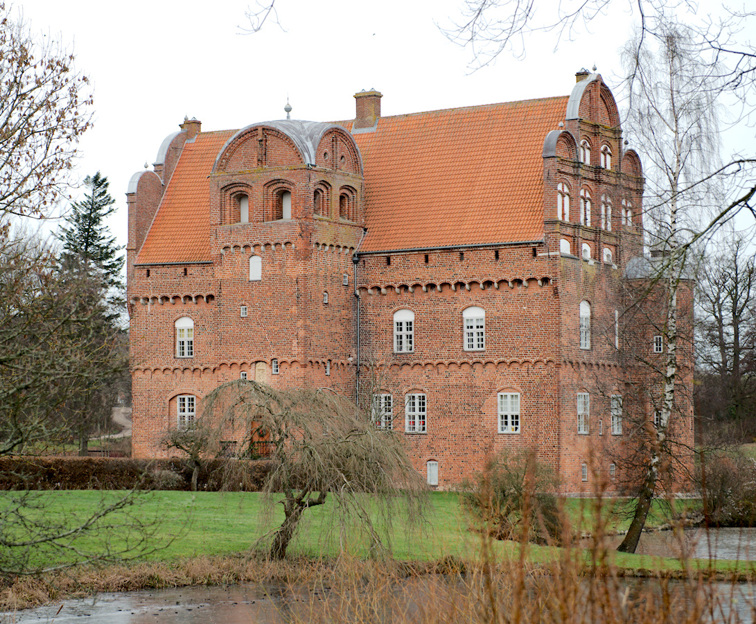 Hesselagergaard